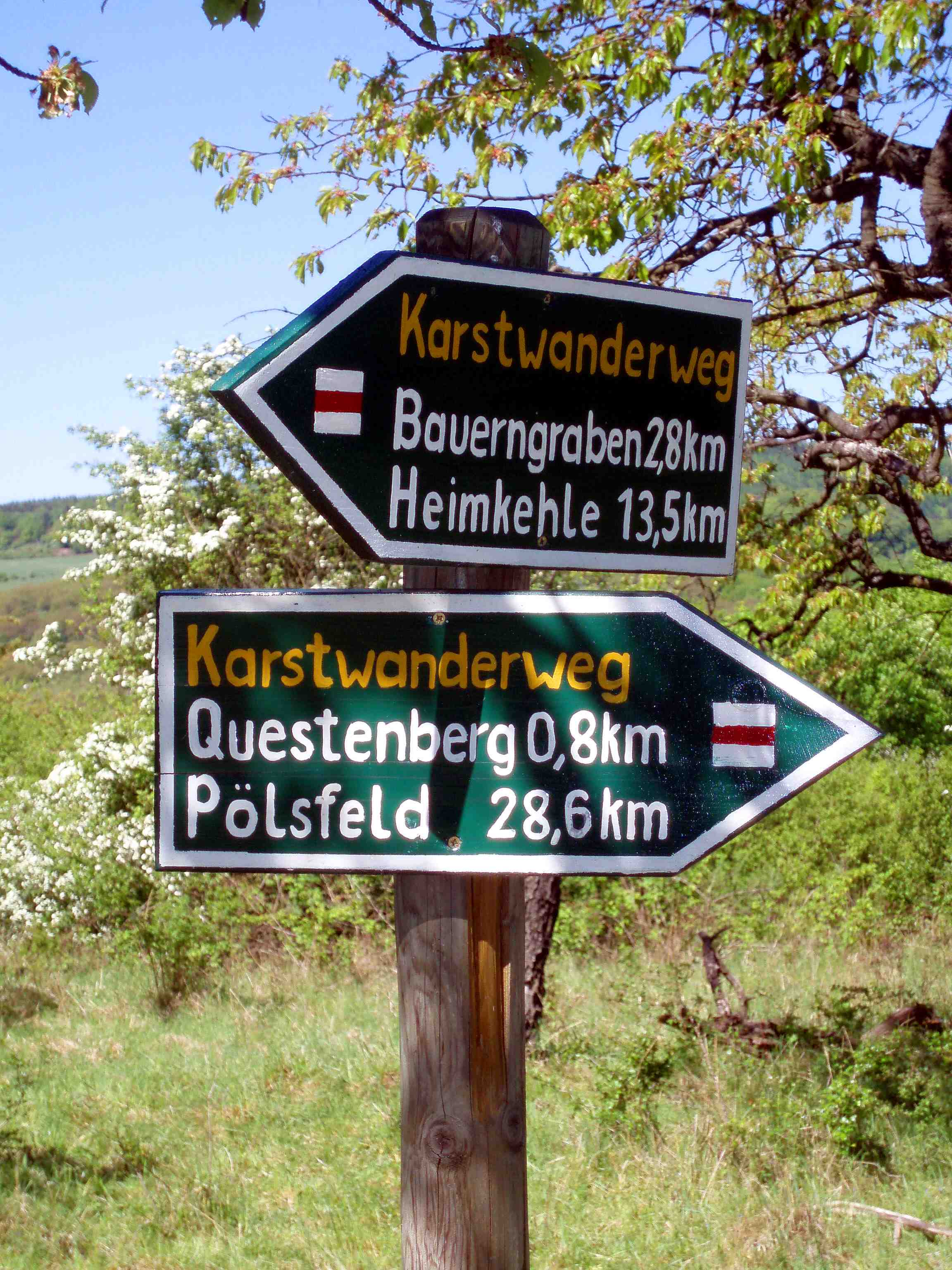 Signpost on the Karst Footpath in Germany